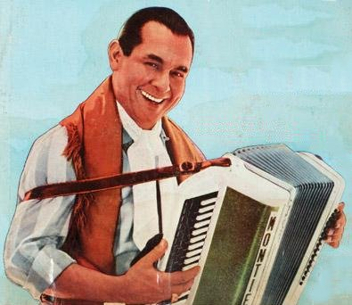 Ernesto Montiel. Corrientes, Argentina. Folk musician